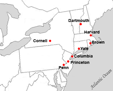 Locations of Ivy League Conference full member institutions.